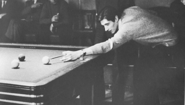 French Carom billiards player